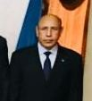 Ministers of Security and Economy of the G5 Sahel after a council, Ouagadougou, 4 Feb 2019. Here Mohamed Ould Ghazouani